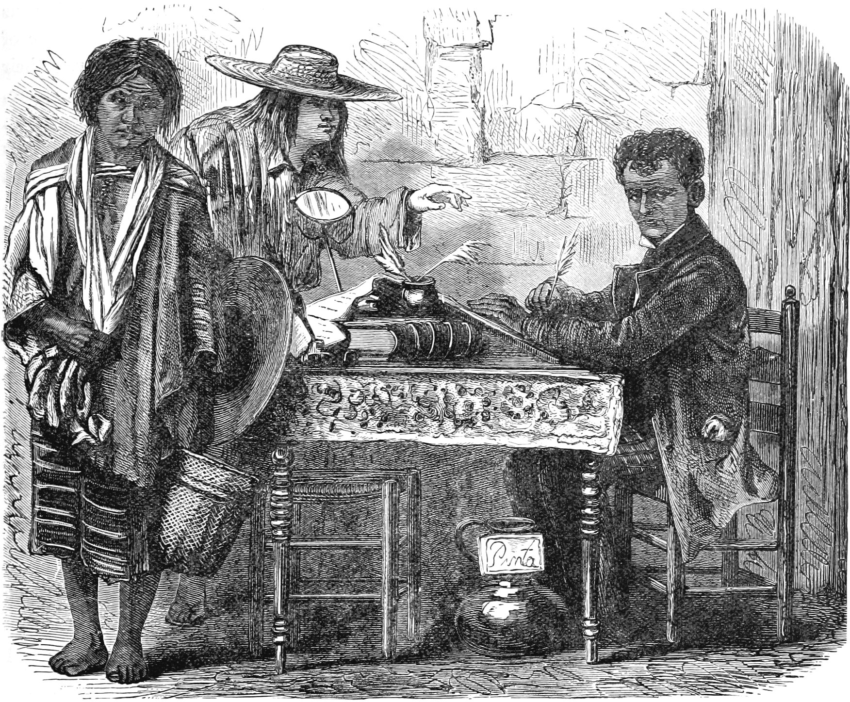 Title: "[The Countries of the World: being a popular description of the various continents, islands, rivers, seas, and peoples of the globe. [With plates. " Author: BROWN, Robert - M.A., Ph.D Shelfmark: "British Library HMNTS 10025.ee.15." Volume: 02 Page: 315 Place of Publishing: London Date of Publishing: 1894 Issuance: monographic Identifier: 000495547